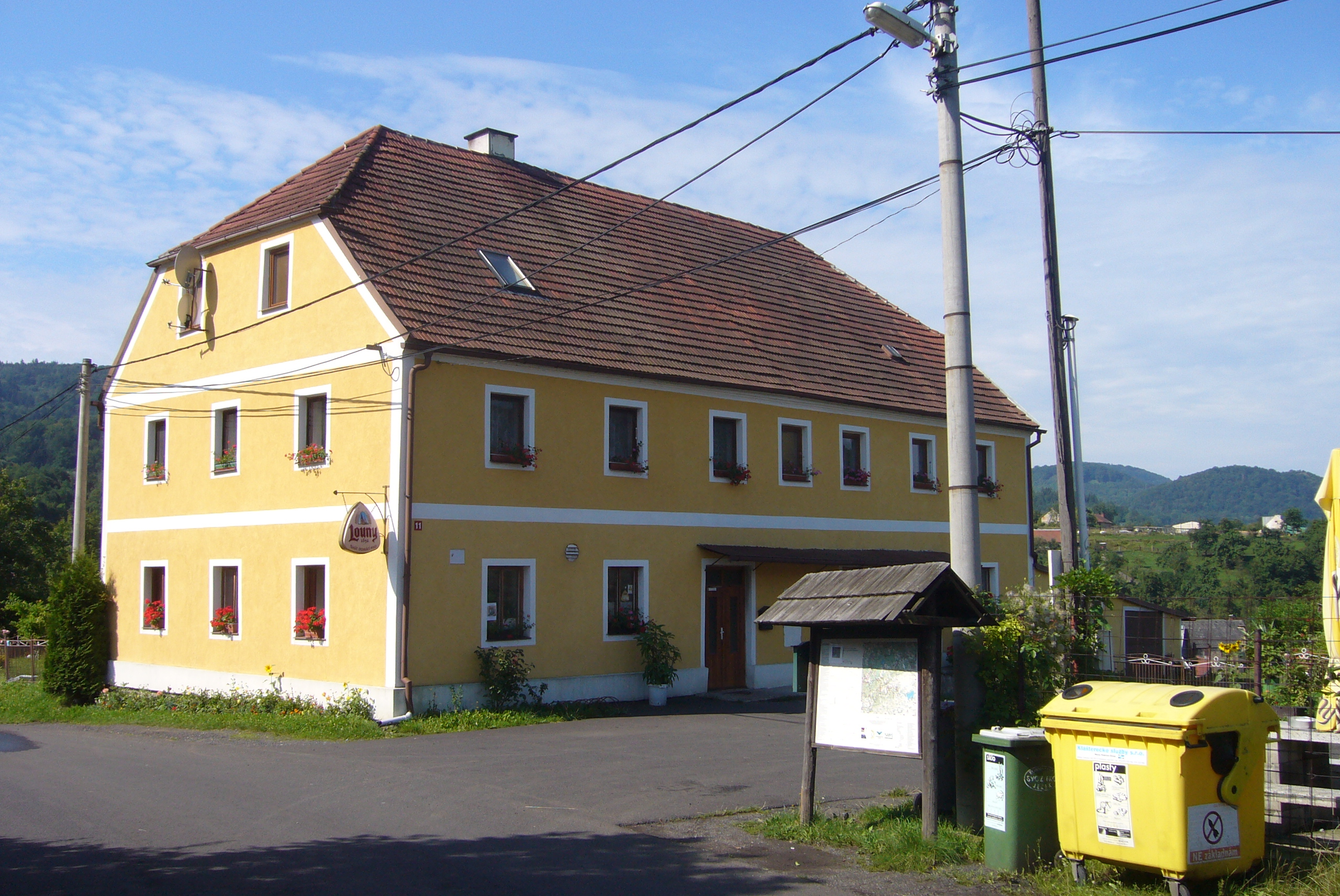 The pub in Kotvina